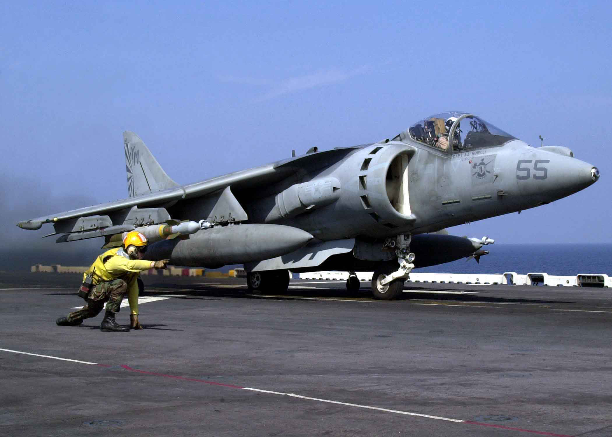 020108-N-6610T-532 Aboard USS Bataan (LHD 5) Jan. 8, 2002 -- Aviation Boatswain's Mate 3rd Class Olisakwe Anchonye launches an AV-8B "Harrier" from the flight deck of USS Bataan. The Bataan is operating in support of Operation Enduring Freedom. U.S. Navy photo by Photographer's Mate 3rd Class John Taucher. (RELEASED)